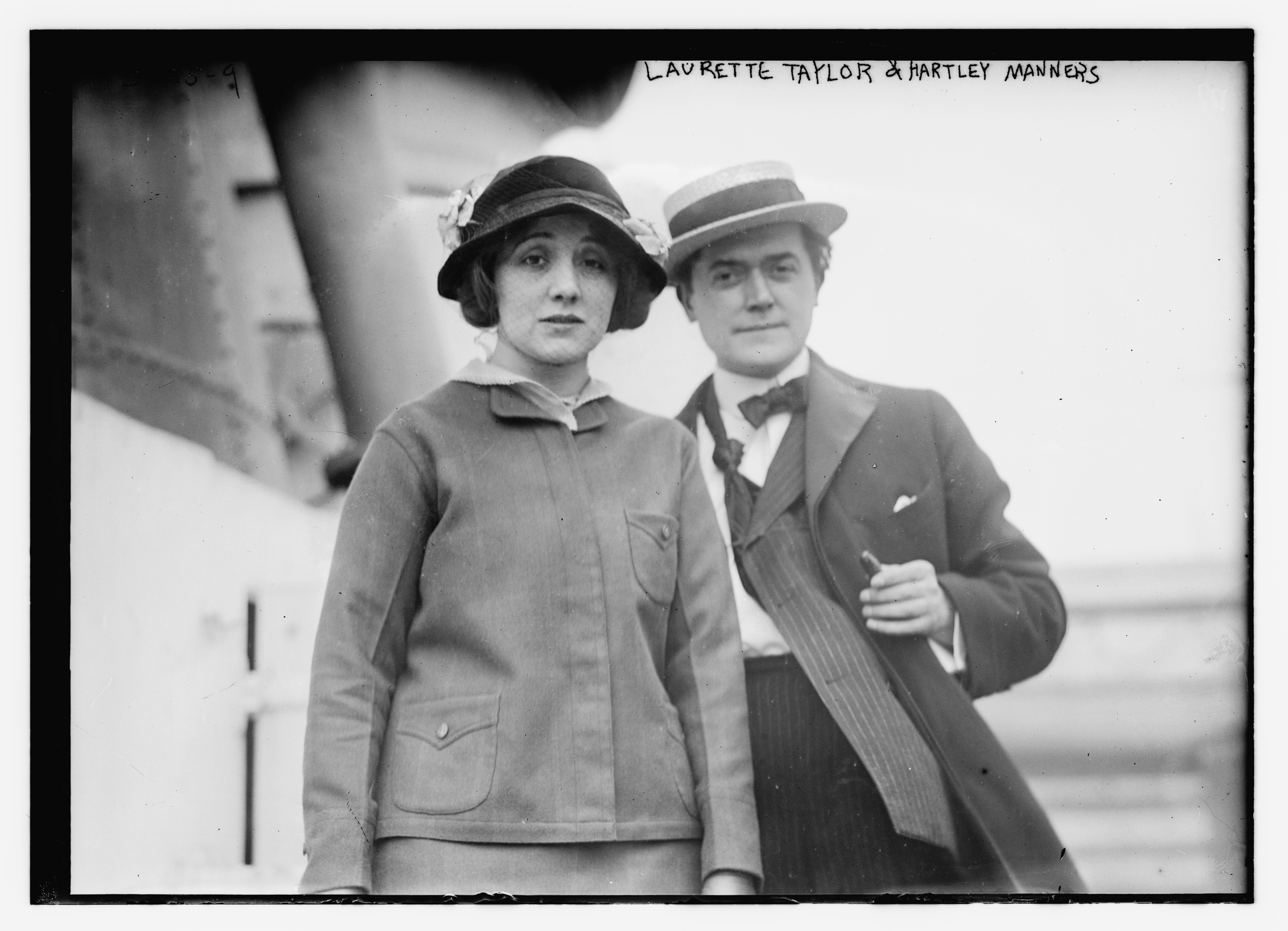 Title: Laurette Taylor and Hartley Manners Abstract/medium: 1 negative : glass ; 5 x 7 in. or smaller.